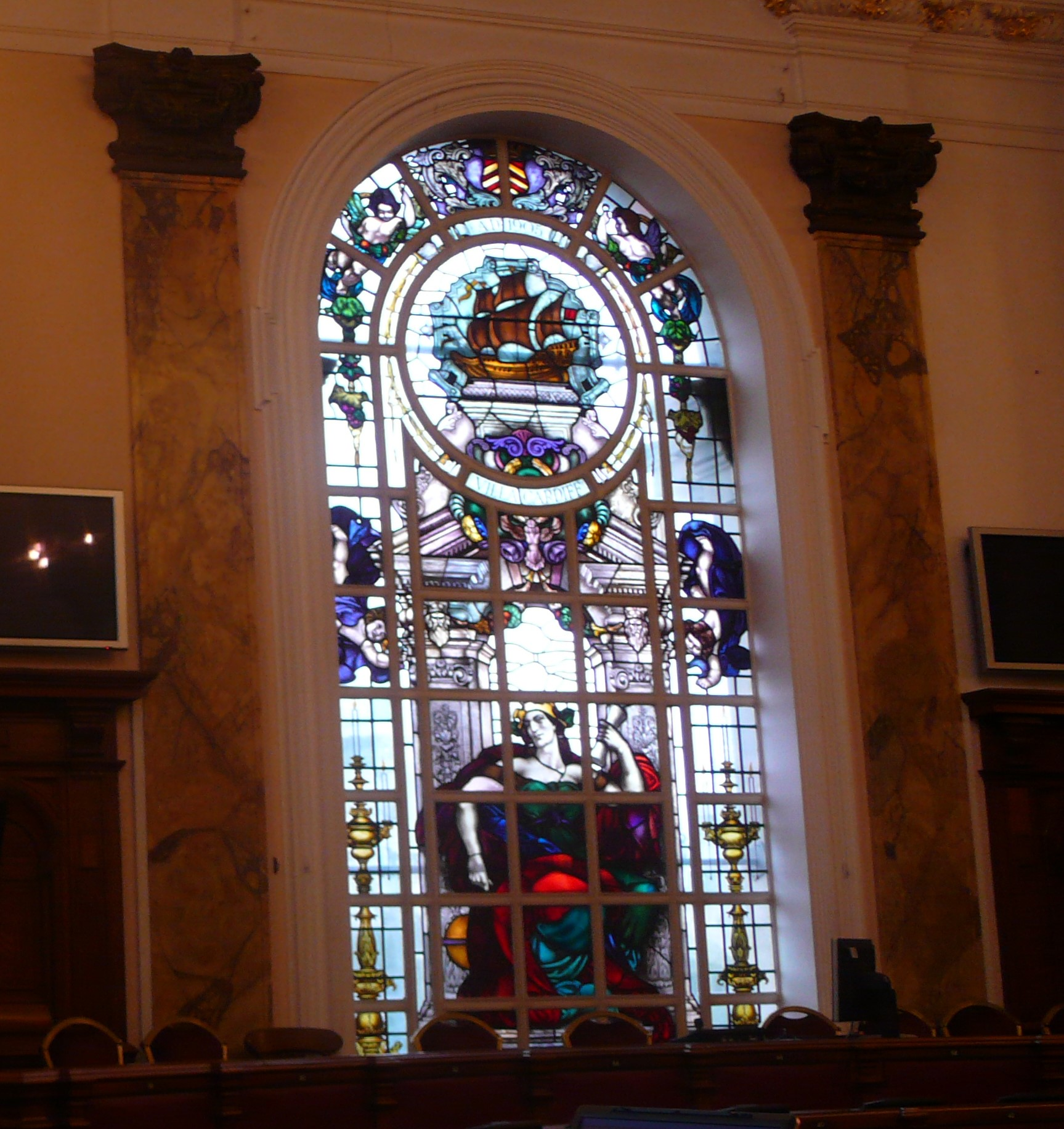 Stained glass window in Cardiff City Hall Council Chamber, Cardiff, Wales designed by Alfred Garth Jones